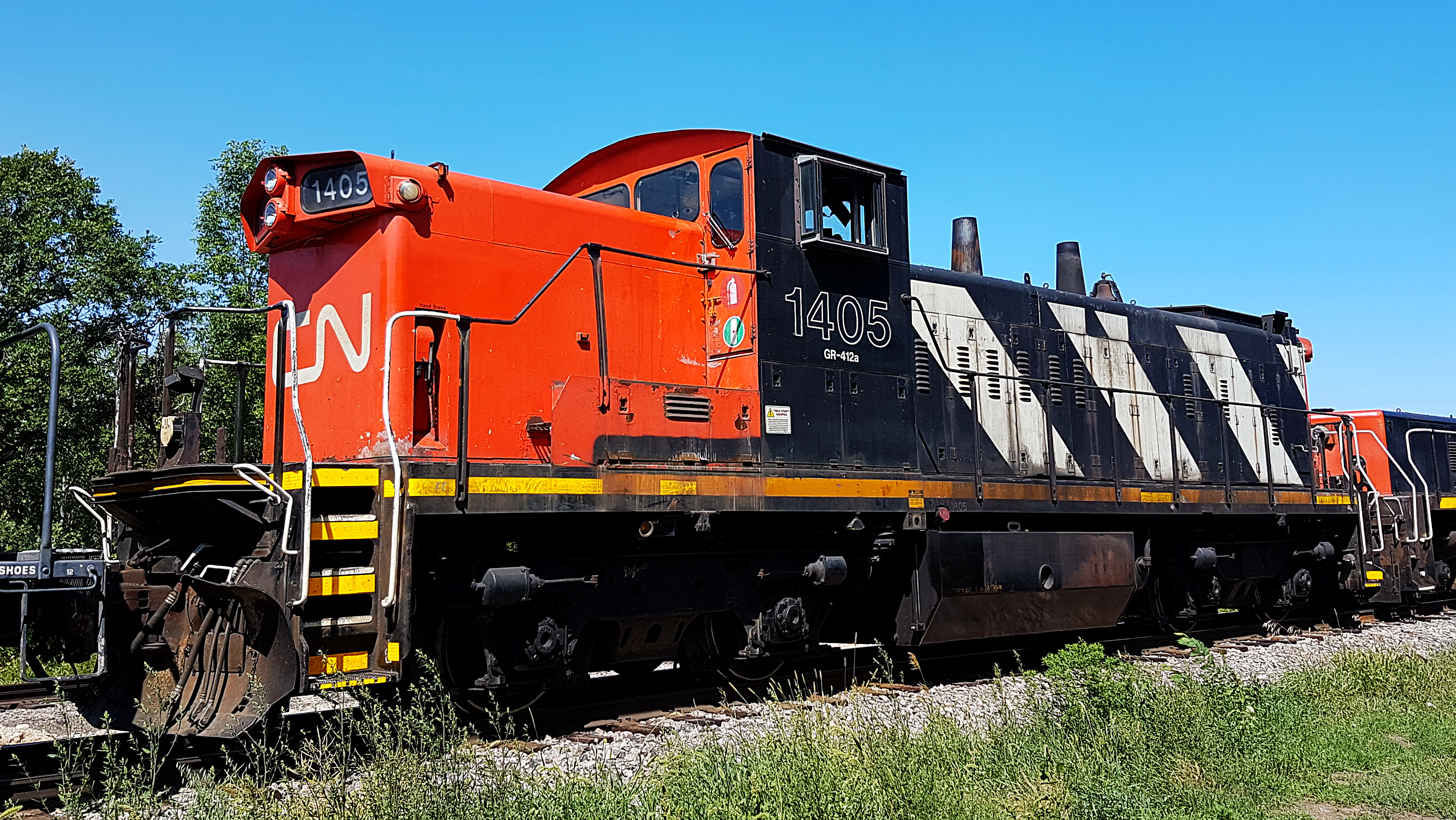 CN 1405 helping a local freight in Winnipeg